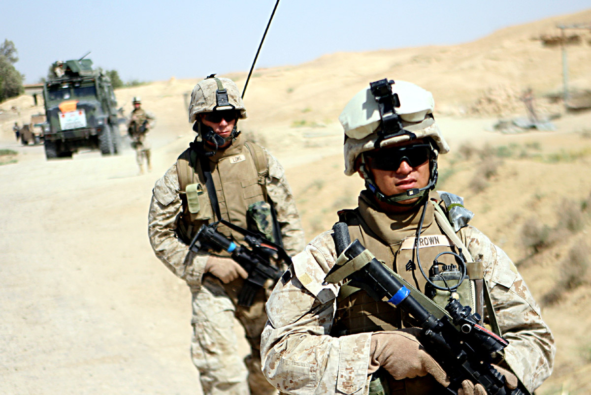 USMC Archives: Marines assigned to the Camp Pendleton, Calif.-based 3rd Assault Amphibian Battalion patrol the dusty streets of Dulab, Iraq, July 17, 2006. The Marines were manning an observation point in this region of western Al Anbar Province, Iraq, July 9, when a band of heavily-armed insurgents surrounded and attacked the post for the second time in a month. A pickup truck came to a stop on a road near the post. Several young men jumped out and opened fire on the Marines, said Staff Sgt. Andrew Messuri, a squad leader with Company C, 3rd AA Bn., and a native of Camby, Ore. The Marines returned fire with their rifles and a machine gun. After a 15-minute gunfight, the Marines eliminated six insurgents and later captured four. But the Marines aren’t alone in their fight against the insurgency – several Iraqi Police officers fresh out of the police academy in Baghdad arrived in Dulab to live and train with the Marines. The Marines, who have spent the past four months providing security in this region, are more than halfway done with their seven-month deployment. They’re scheduled to return to the U.S. in October, and will be replaced by another U.S. military unit.